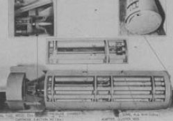 The M33 500-lb biological cluster bomb, which held 108 of the M114 bombs.